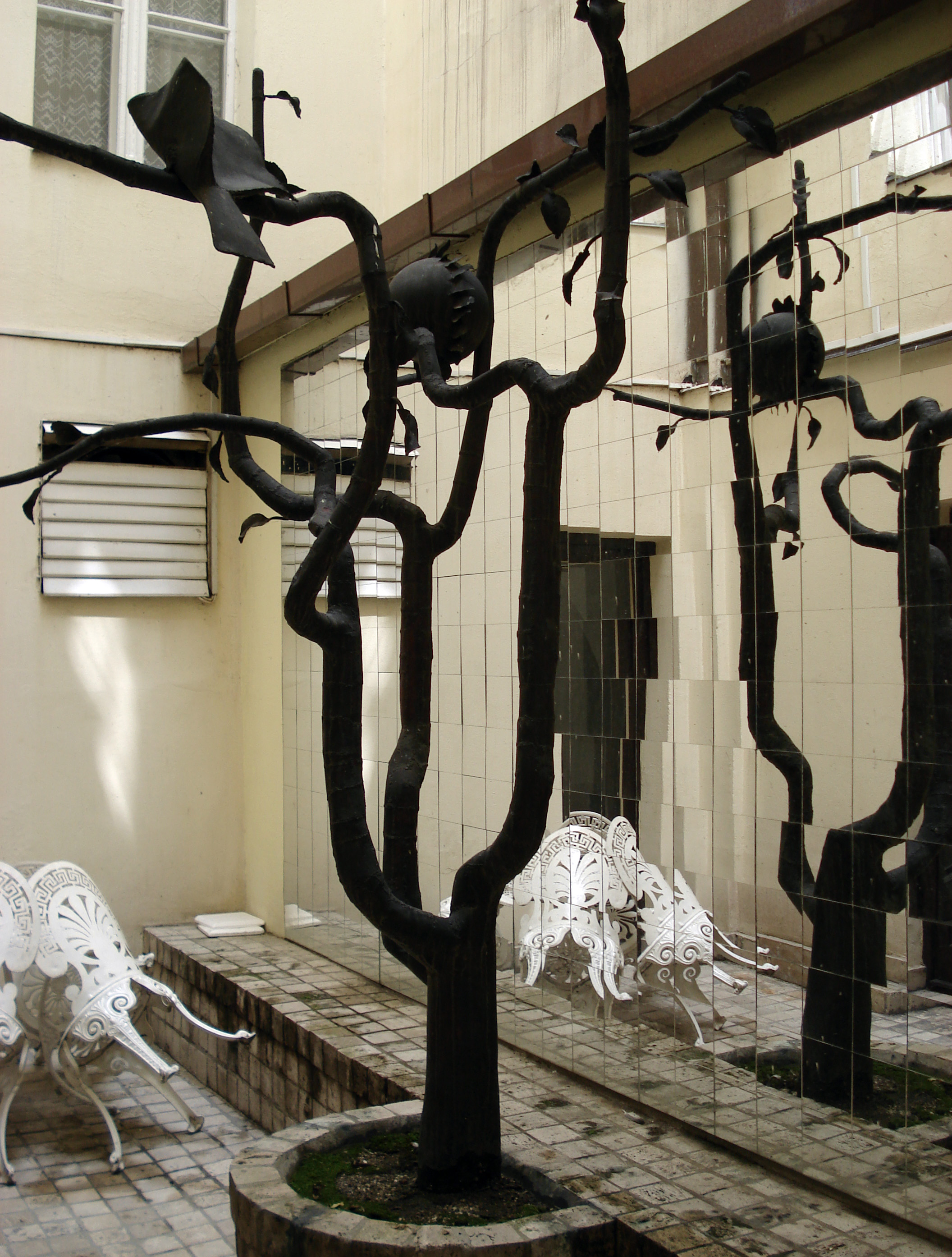 Life tree. Sculptor: Péter Szanyi. Hungarian Academy of Sciences Regional Committee in Miskolc, Hungary